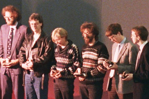 England (Speelman, Nunn, Chandler, Mestel, Watson, Short), Chess Olympiad 1988 in Thessaloniki, Photographer Gerhard Hund.